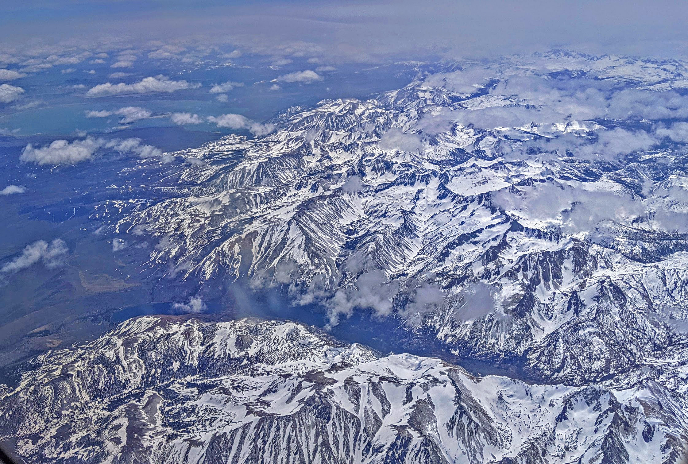 Aerial view of the eastern Sierra Nevada canyon with Twin Lakes near Bridgeport, Mono County, California, not to be confused with the other Twin Lakes further south in Mono County